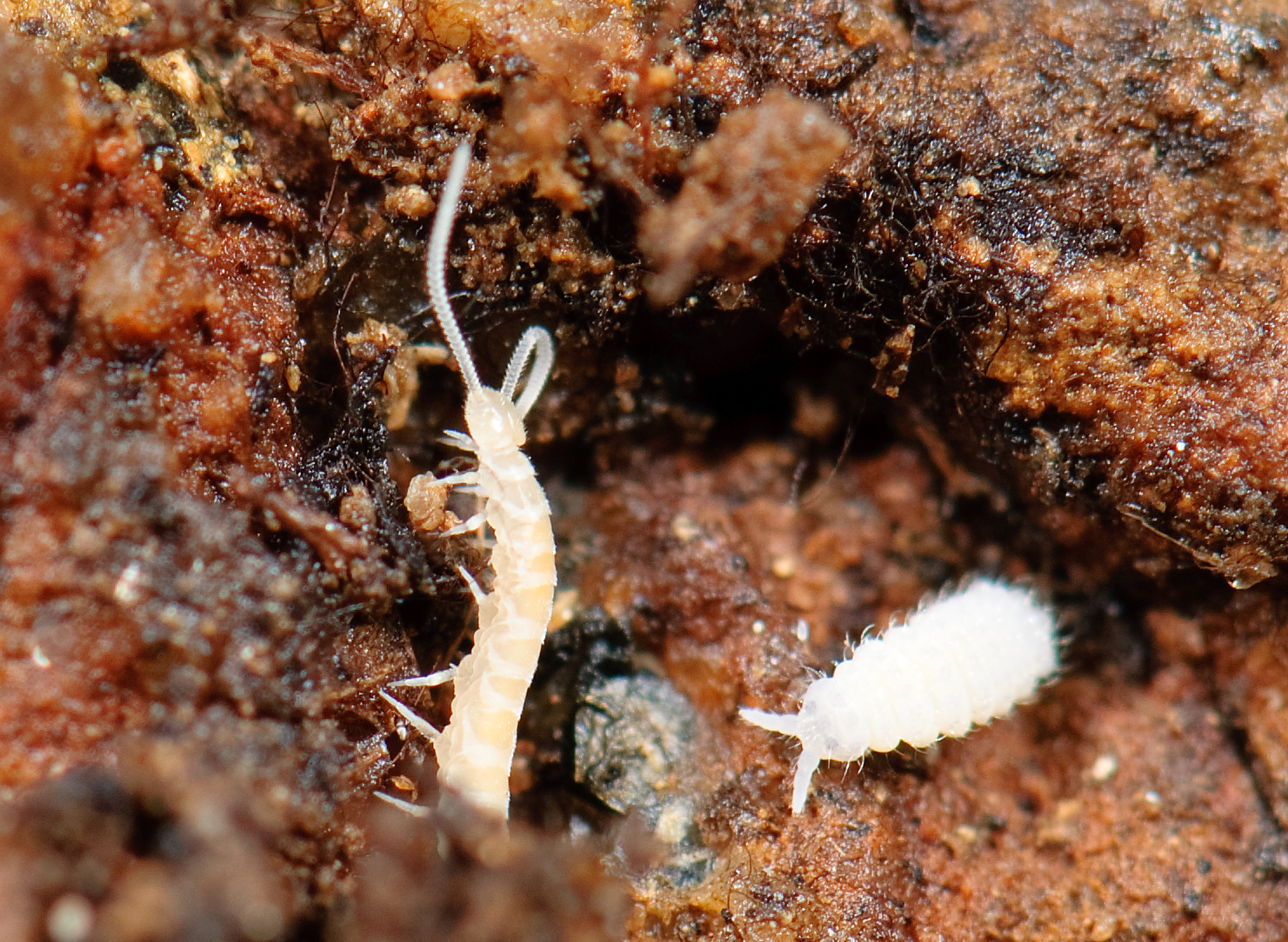 under rock, N-facing slope, coniferous forest